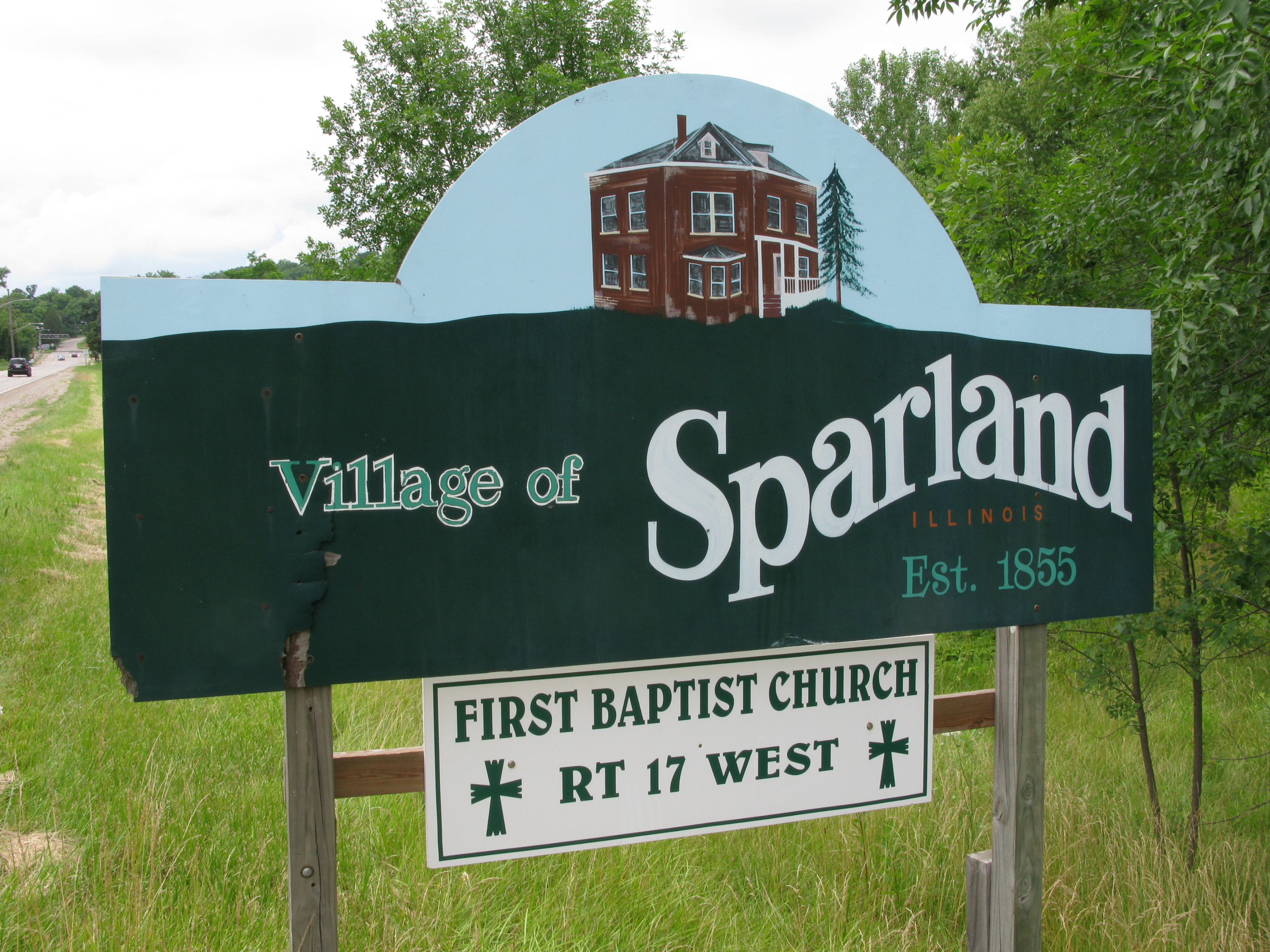 Town sign, Sparland, Illinois, featuring the Sparland Octagon House